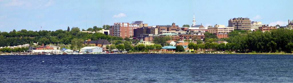 Burlington seen from Lake Champlain